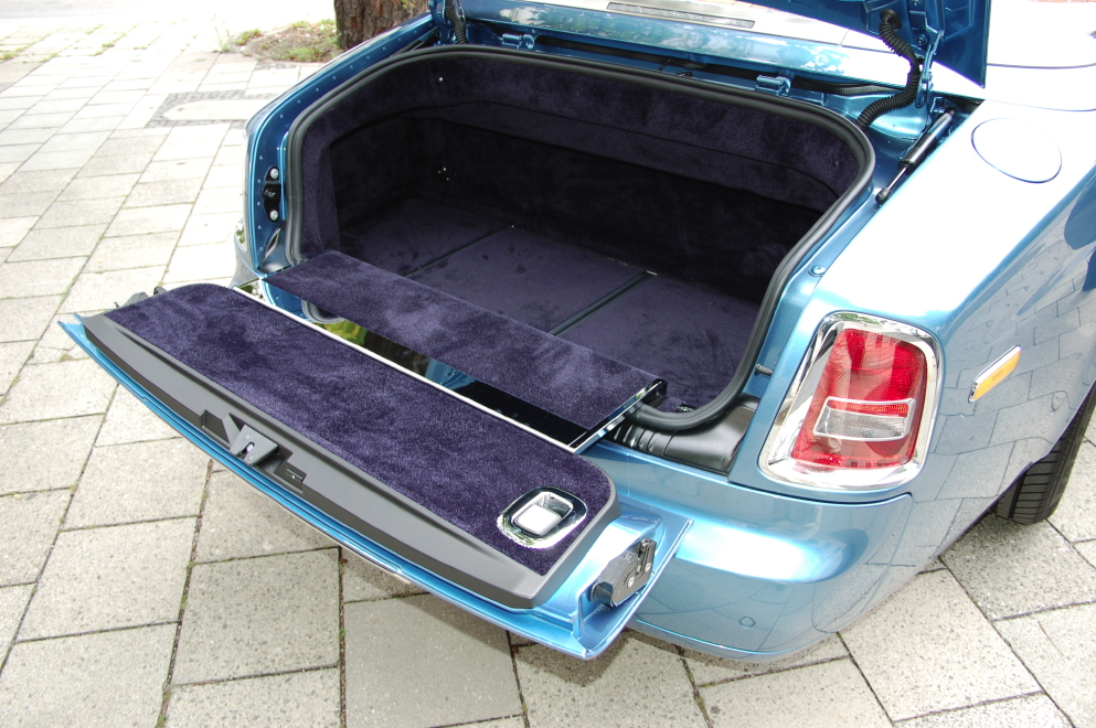 Rolls-Royce New Phantom Drop Head Coupe (DHC)